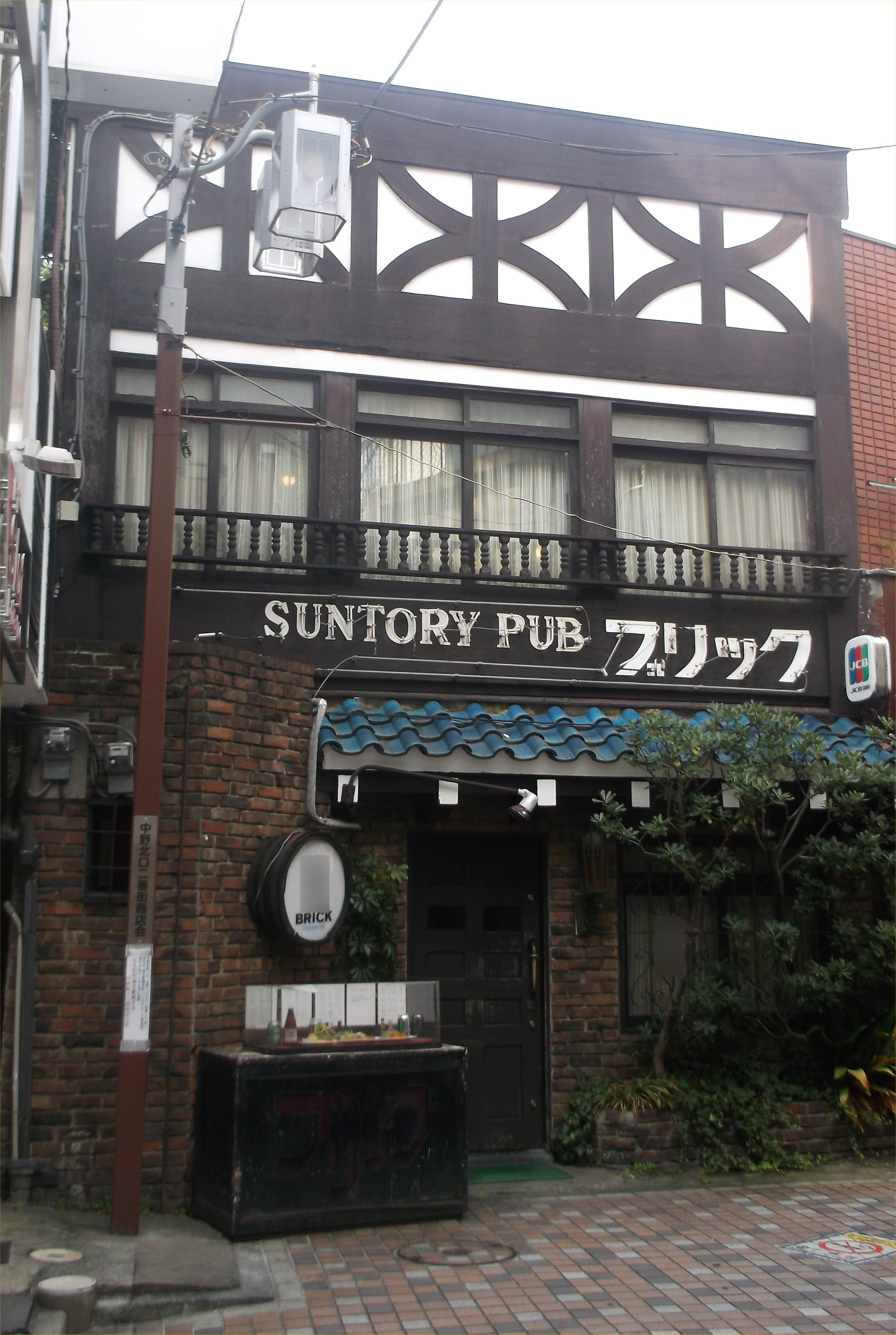 A photo of Suntory Whisky Bar(Tory's bar)"Brick",Nakano,Nakano-ku,Tokyo,Japan.